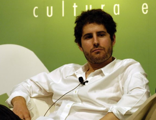 Giuliano da Empoli at the Cortina conference Cortina Incontri 2005